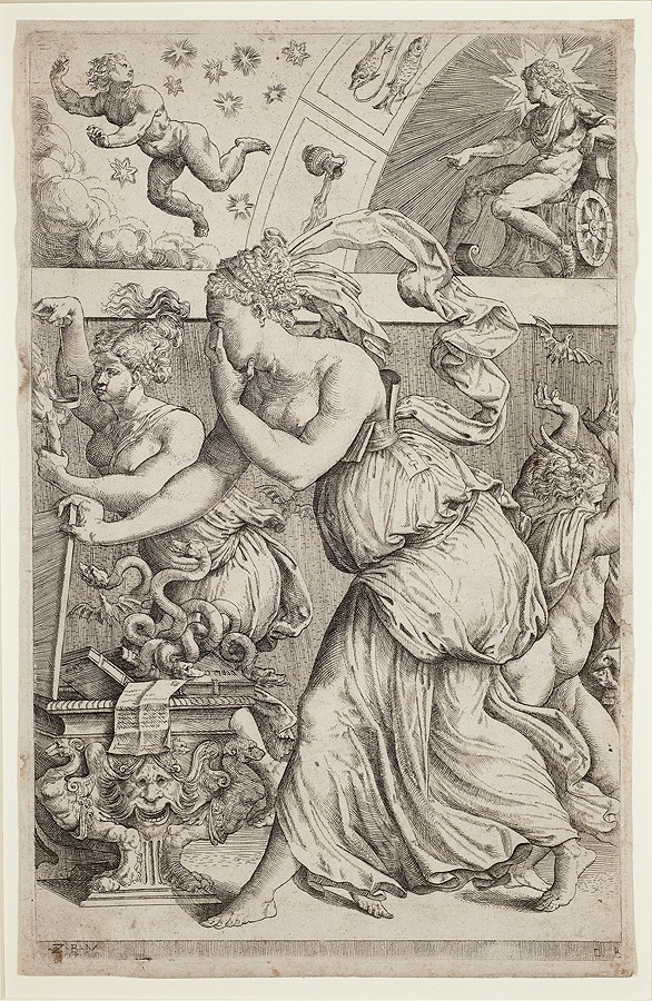 Pandora’s Box or An Allegory of Les Sciences qui Éclairent l'esprit de l'homme (The Sciences that Illuminate the Human Spirit), ascribed to Marco Angelo del Moro. An etching with engraving on laid paper, dated 1557, 37.6 x 24.1 cm. The National Gallery of Art, Washington DC.